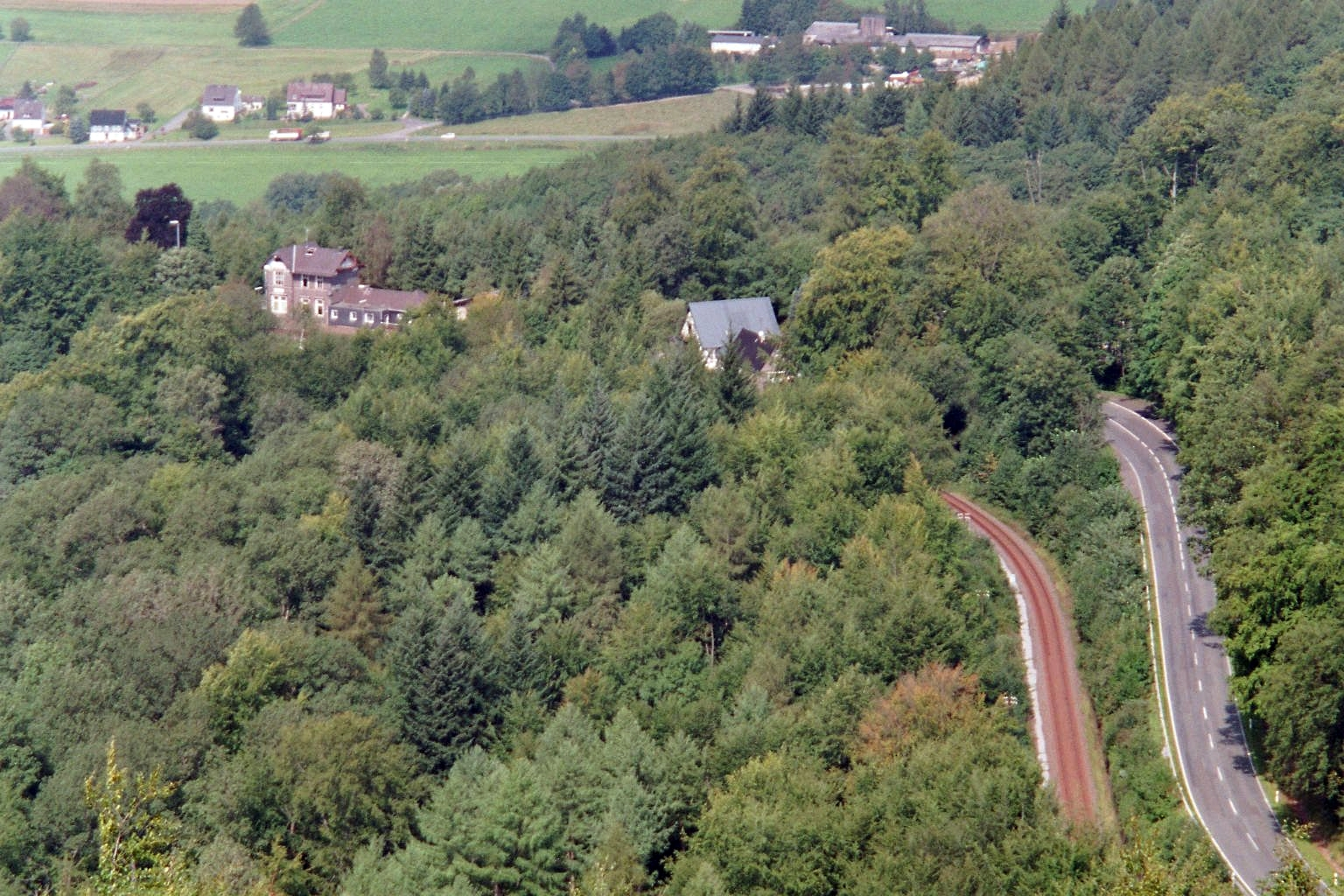 Railroad line "Rothaarbahn" near "Vormwald".